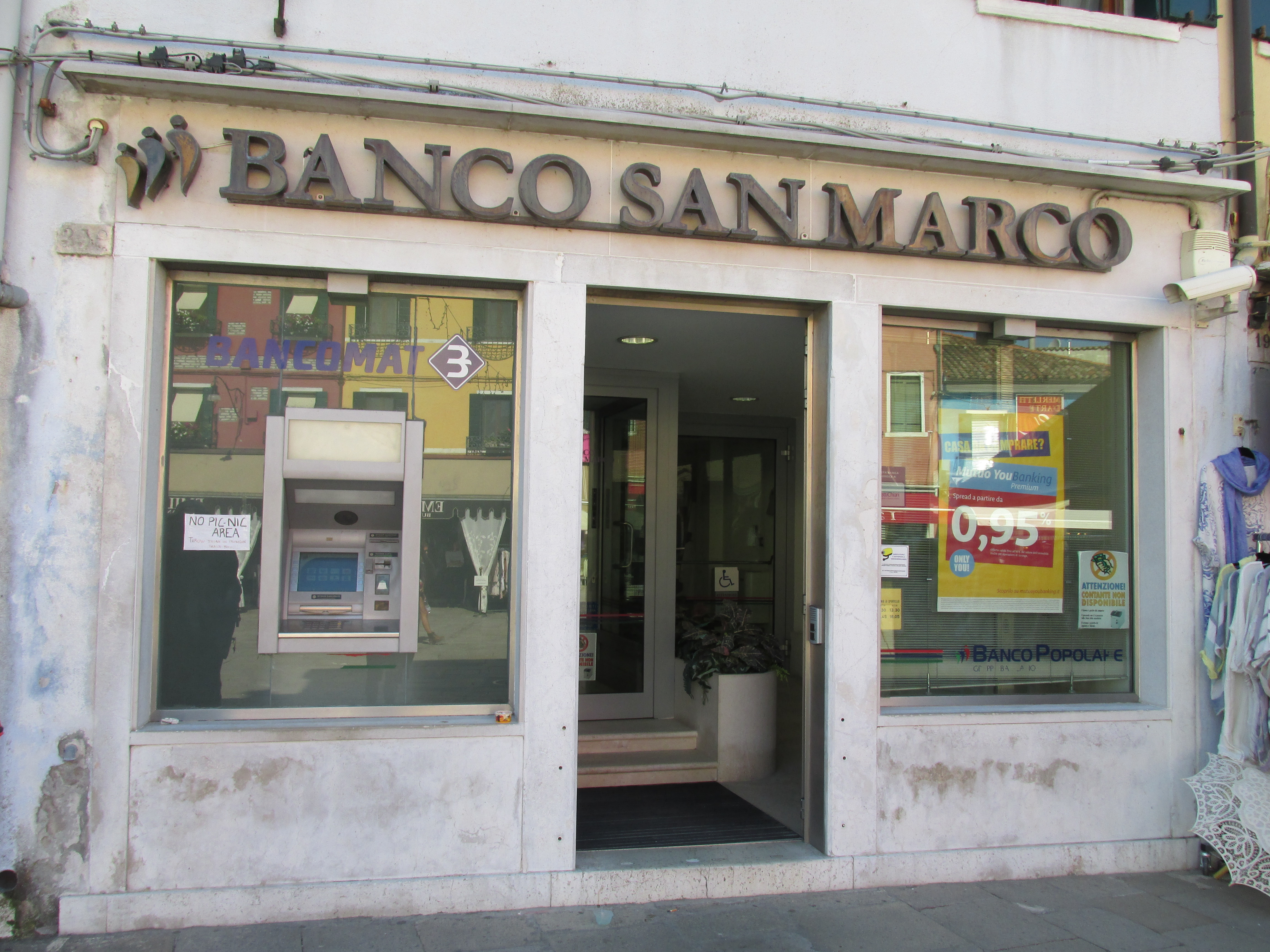 Office of Banco San Marco in Burano, Venice.